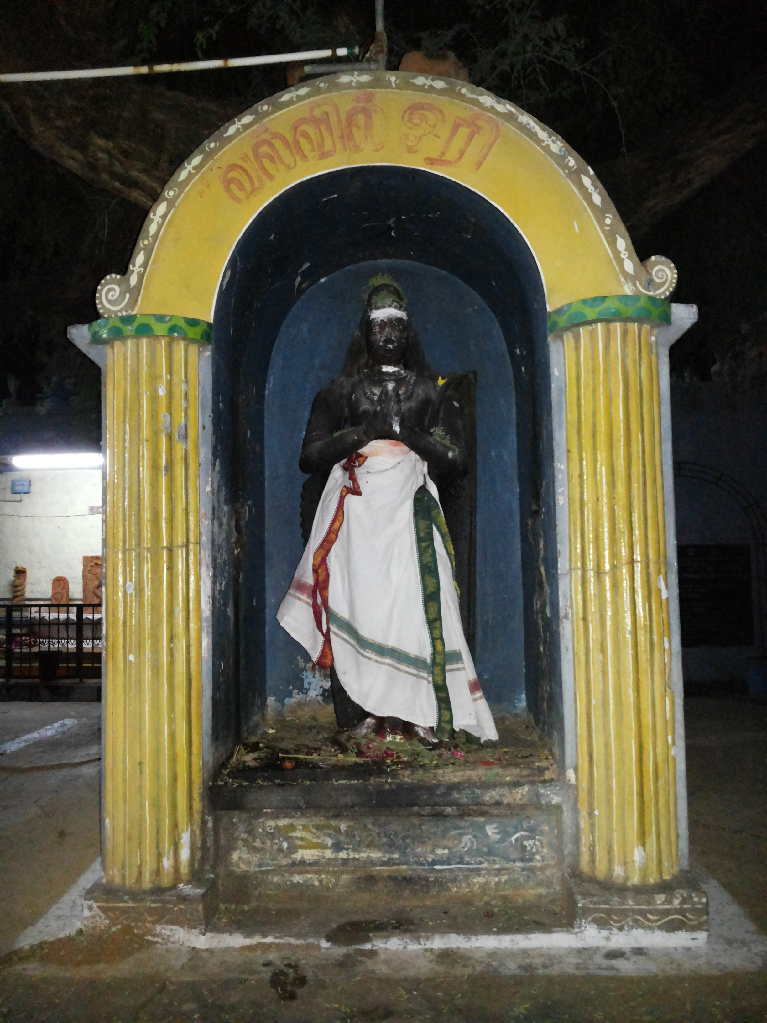 Val vil oori statue at Kailasanatha temple, Rasipuram.